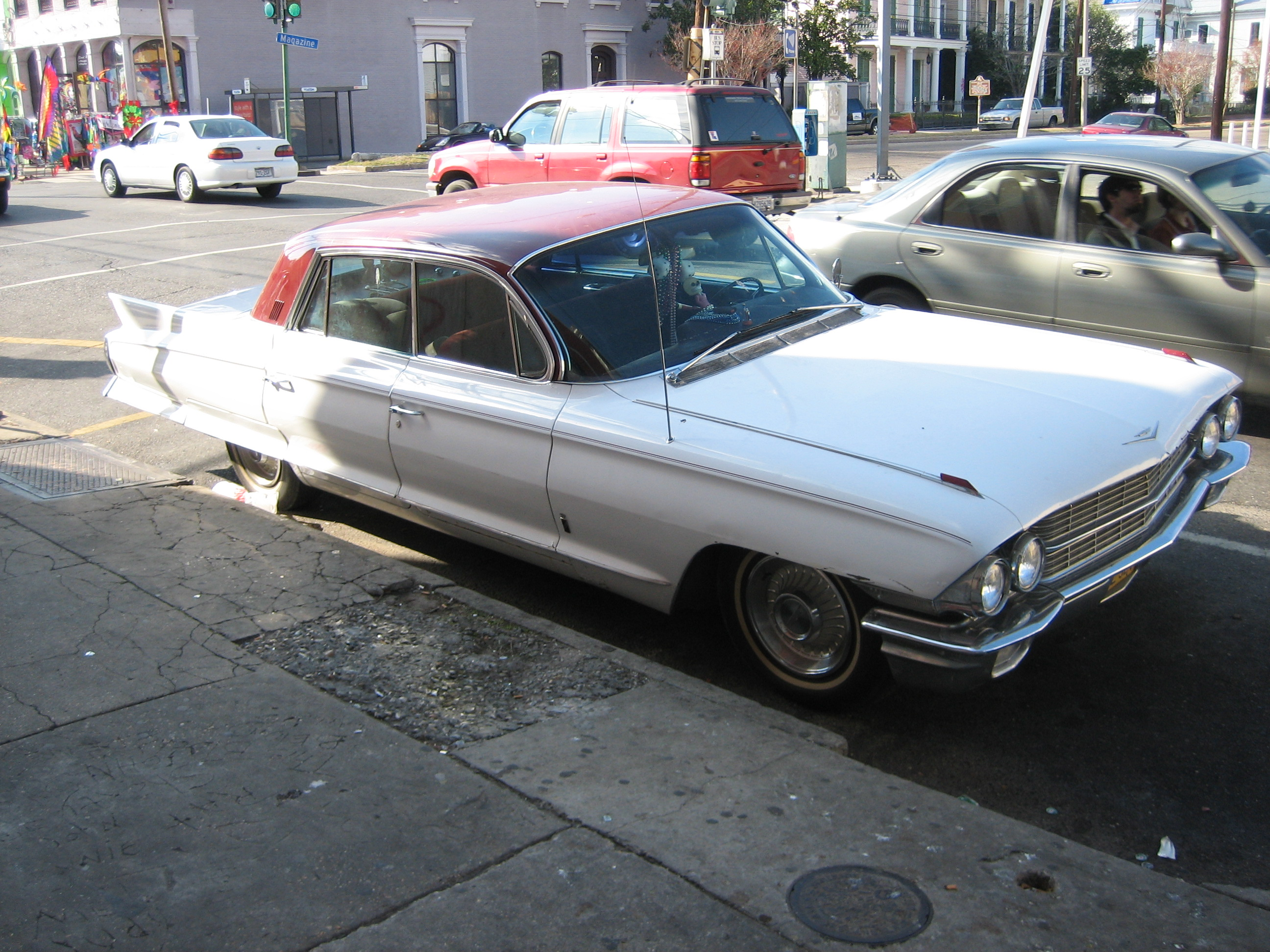 New Orleans: 1962 Cadillac parked on Magazine Street just down from Jackson Avenue.